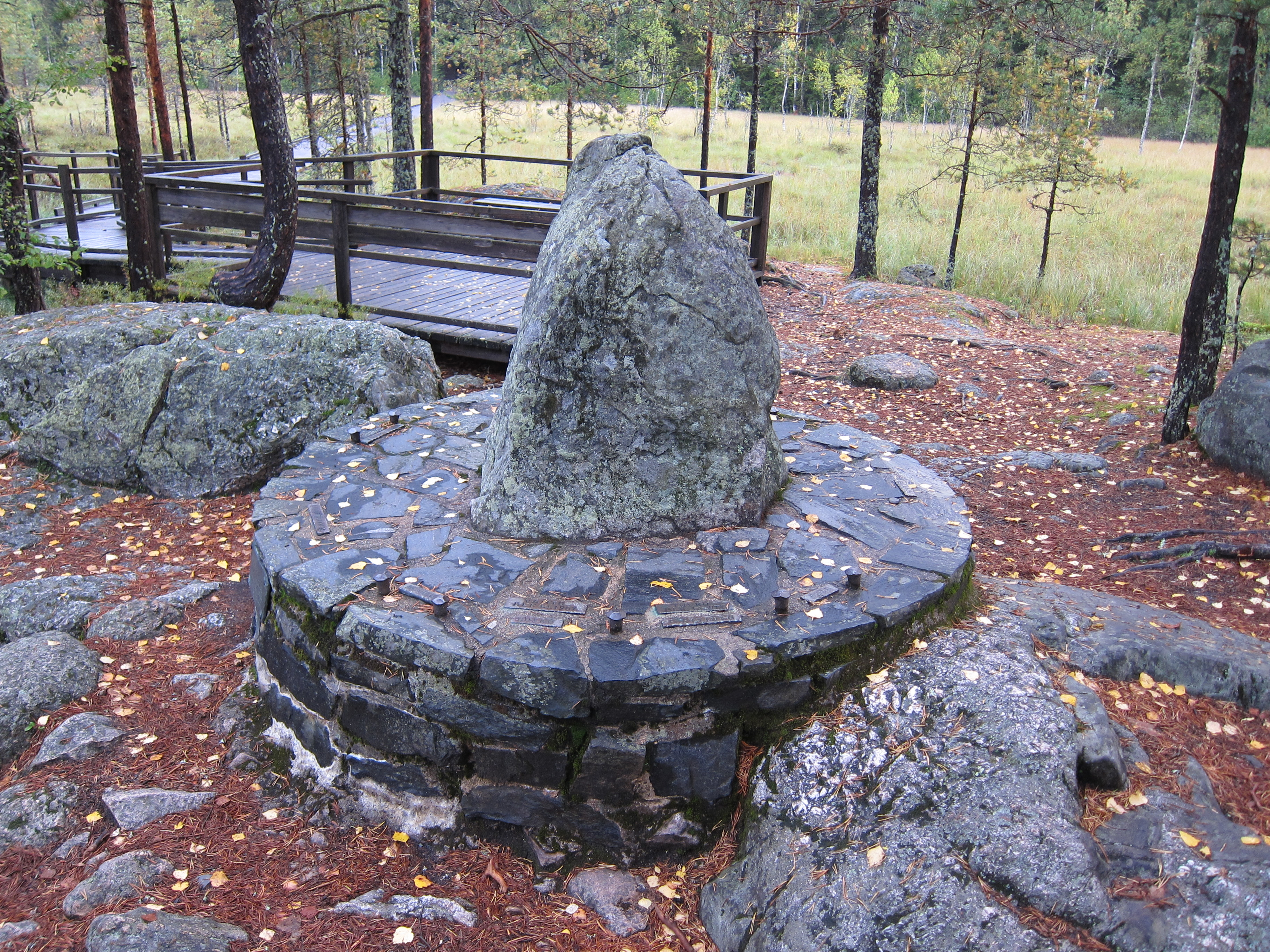 Kuhankuono Boundary stone in Kurjenrahka National Park, Finland. In background you can see the wheelchair trail.